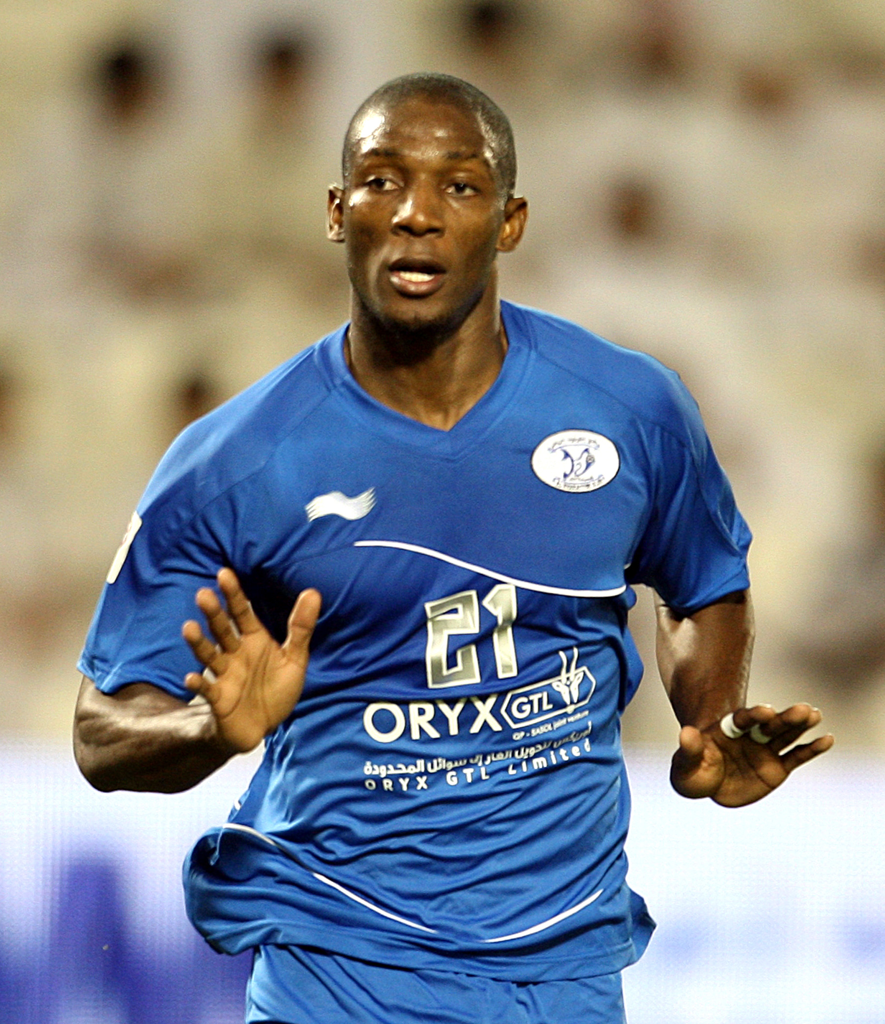 Al Kharaitiyat's Jaycee John celebrates a goal against Al Sadd during the Qatar Stars League match.